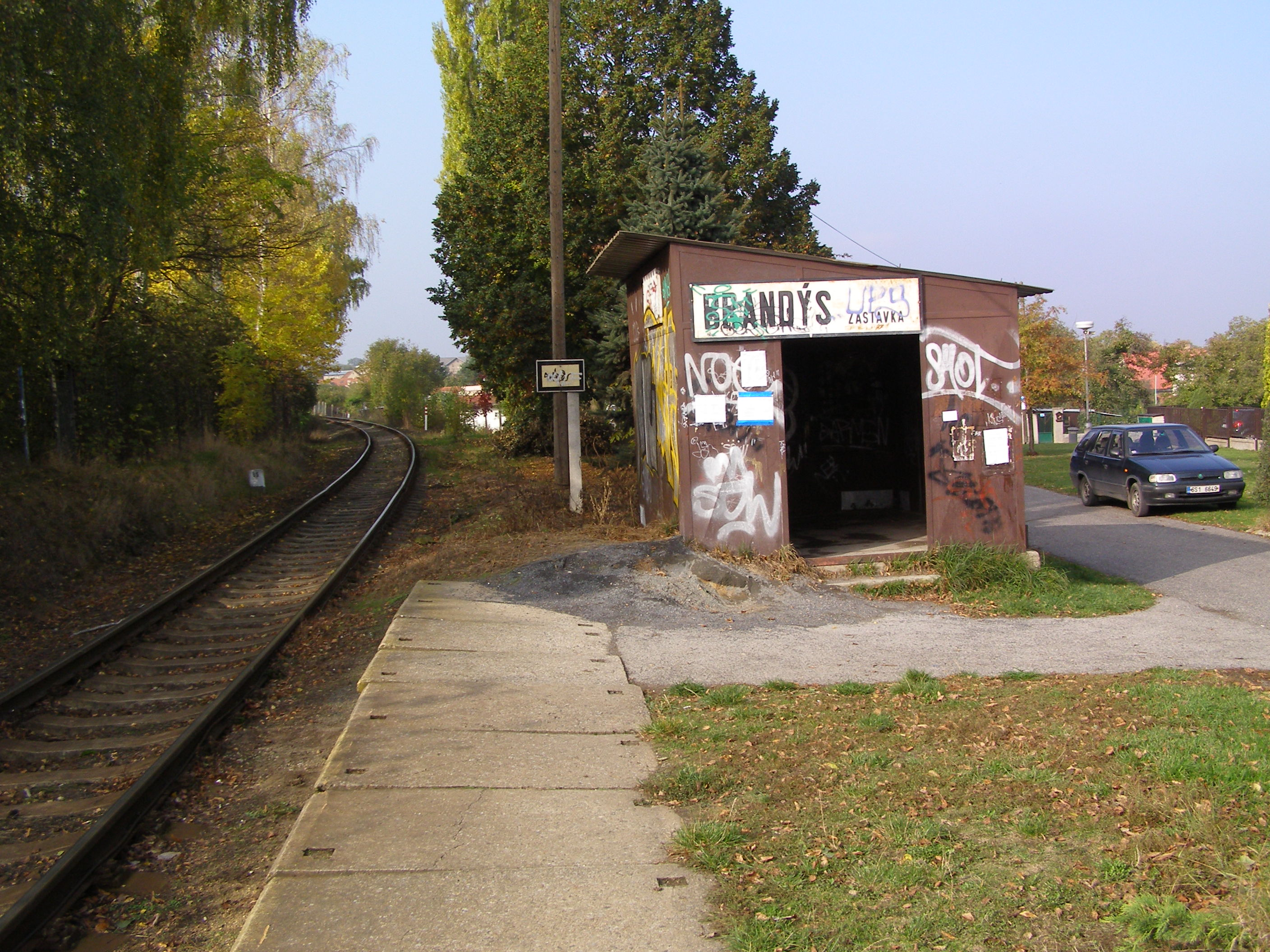 station Brandys nad Labem zastavka